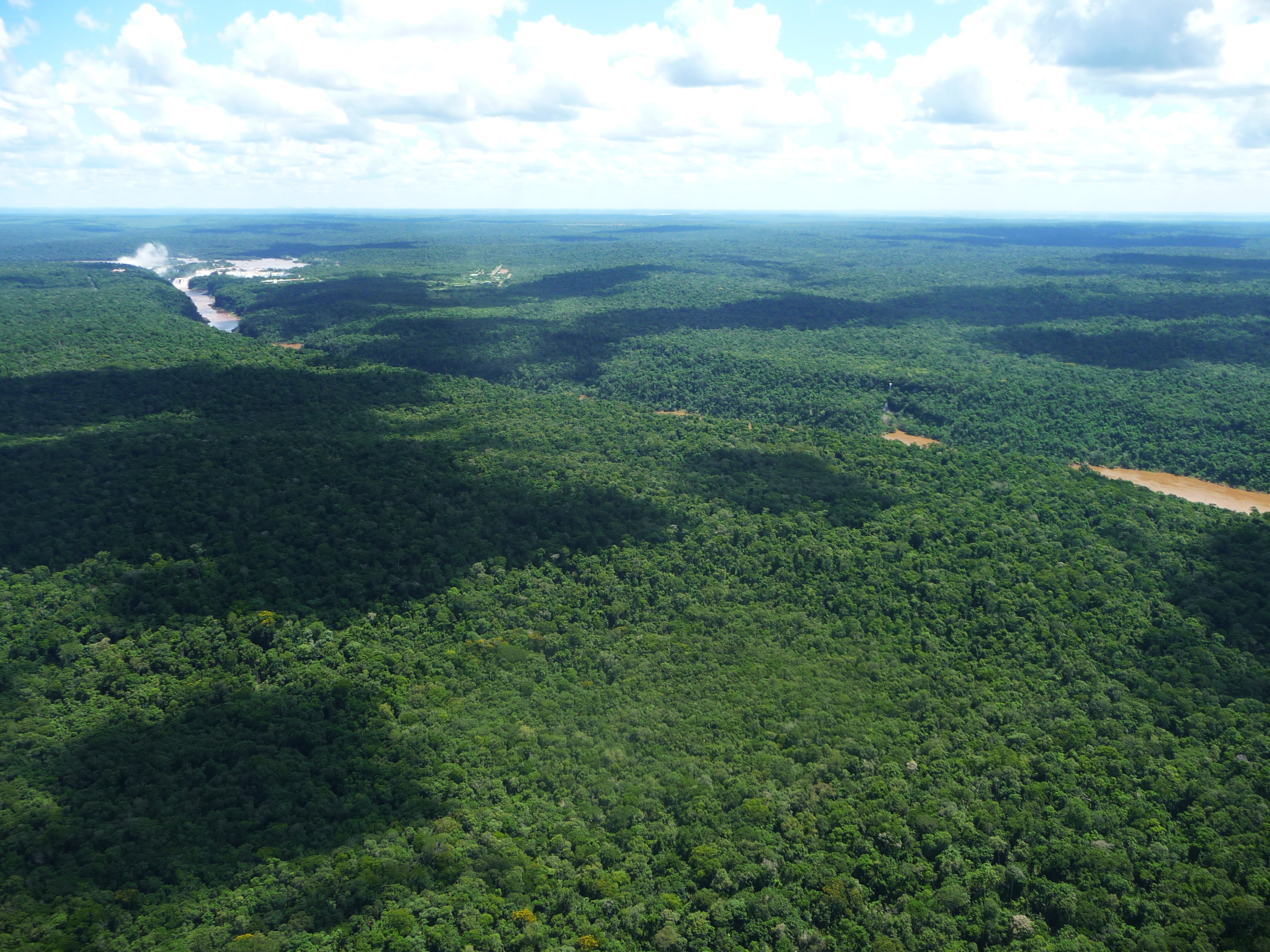 Arial view of Iguazu Falls in distance